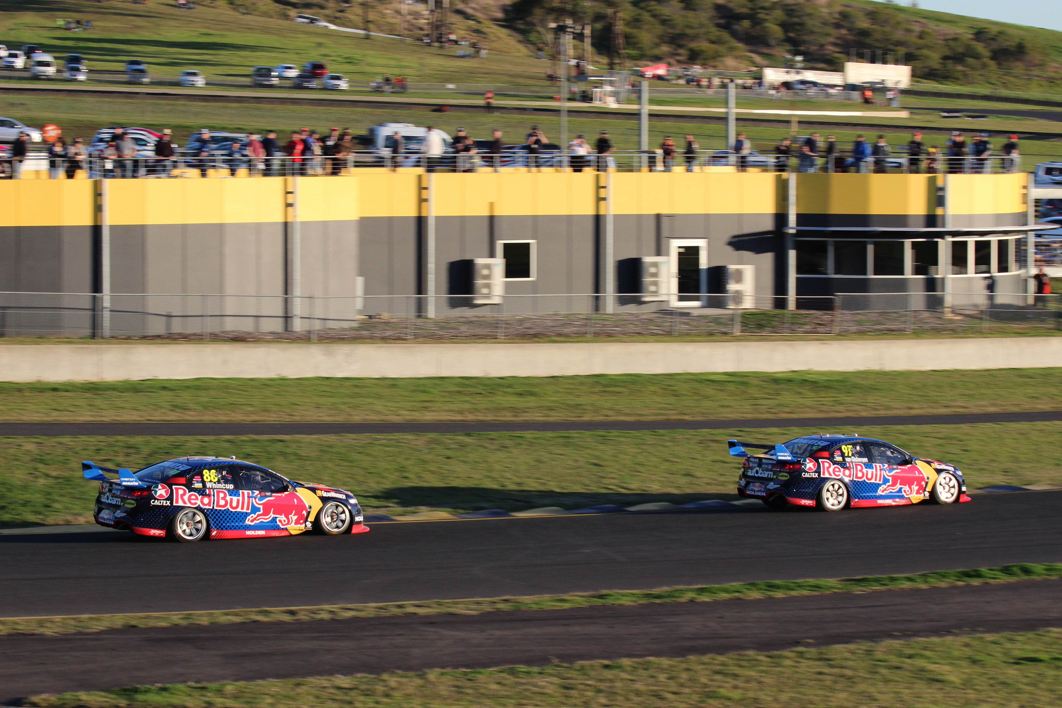 Shane Van GIsbergen and Jamie Whincup (Triple Eight Holden VF Commodore) lead Race 18 at the 2016 Red Rooster Sydney SuperSprint.